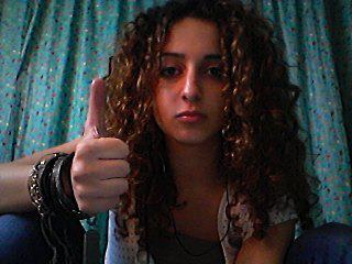 Loubna Mrie, human rights activist